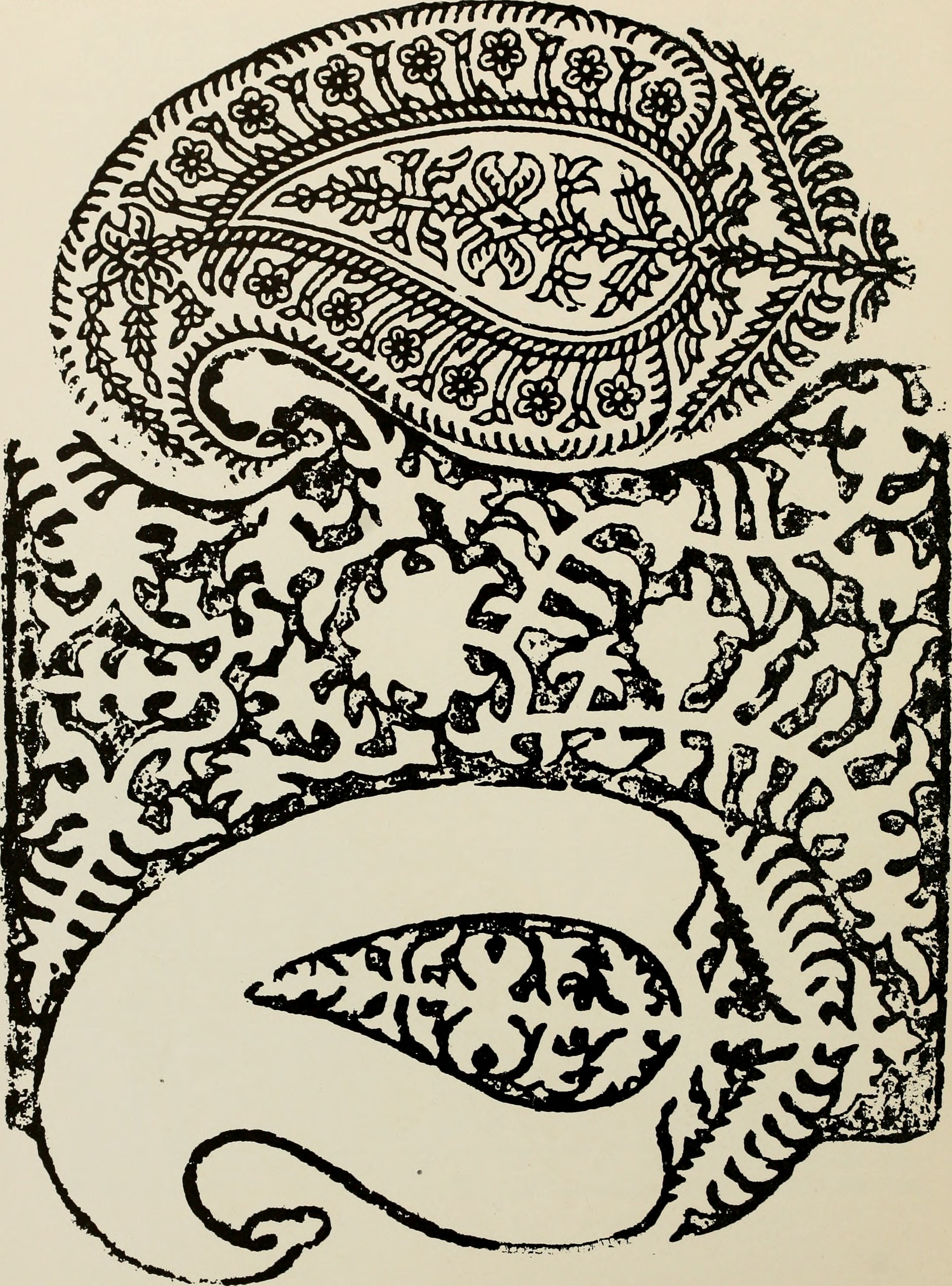 Title: Block prints from India for textiles Year: 1924 (1920s) Authors: Lewis, A. B. (Albert Buell), 1867- Subjects: Textile design; Textile fabrics -- India; Decoration and ornament Publisher: Chicago Text Appearing Before Image: FIELD MUSEUM OF NATURAL HISTORY. ANTHROPOLOGY, DESIGN SERIES NO. 1, PLATE VII Text Appearing After Image: BLOCK PRINTS FROM INDIA—BORDER DESIGN. This shows the impression of two blocks. The one above would be printed in black and the larger one probably in red. The block that should go with these for the foliage is unfortunately missing. Other colors might also be added, either bv block or by hand, as in Plate I.